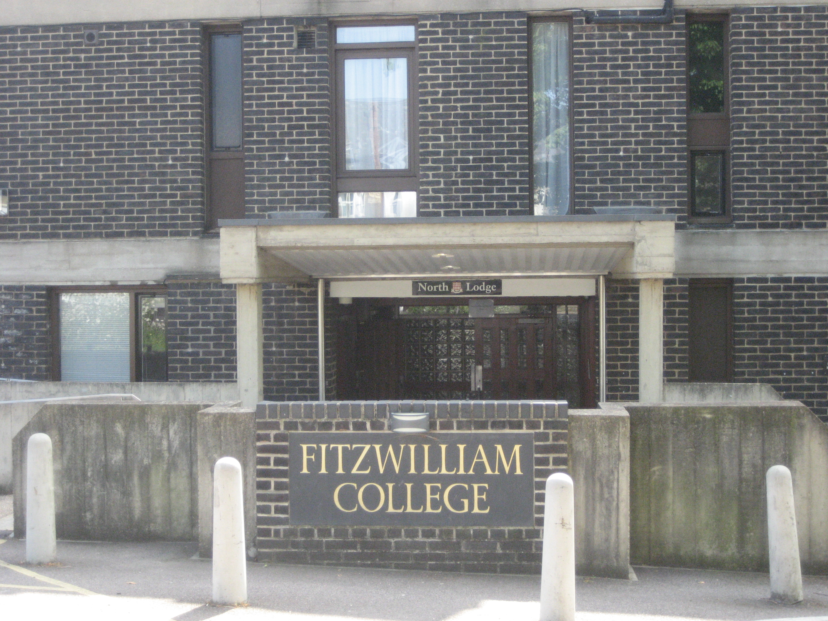 North Lodge, Fitzwilliam College, Cambridge, England (UK)